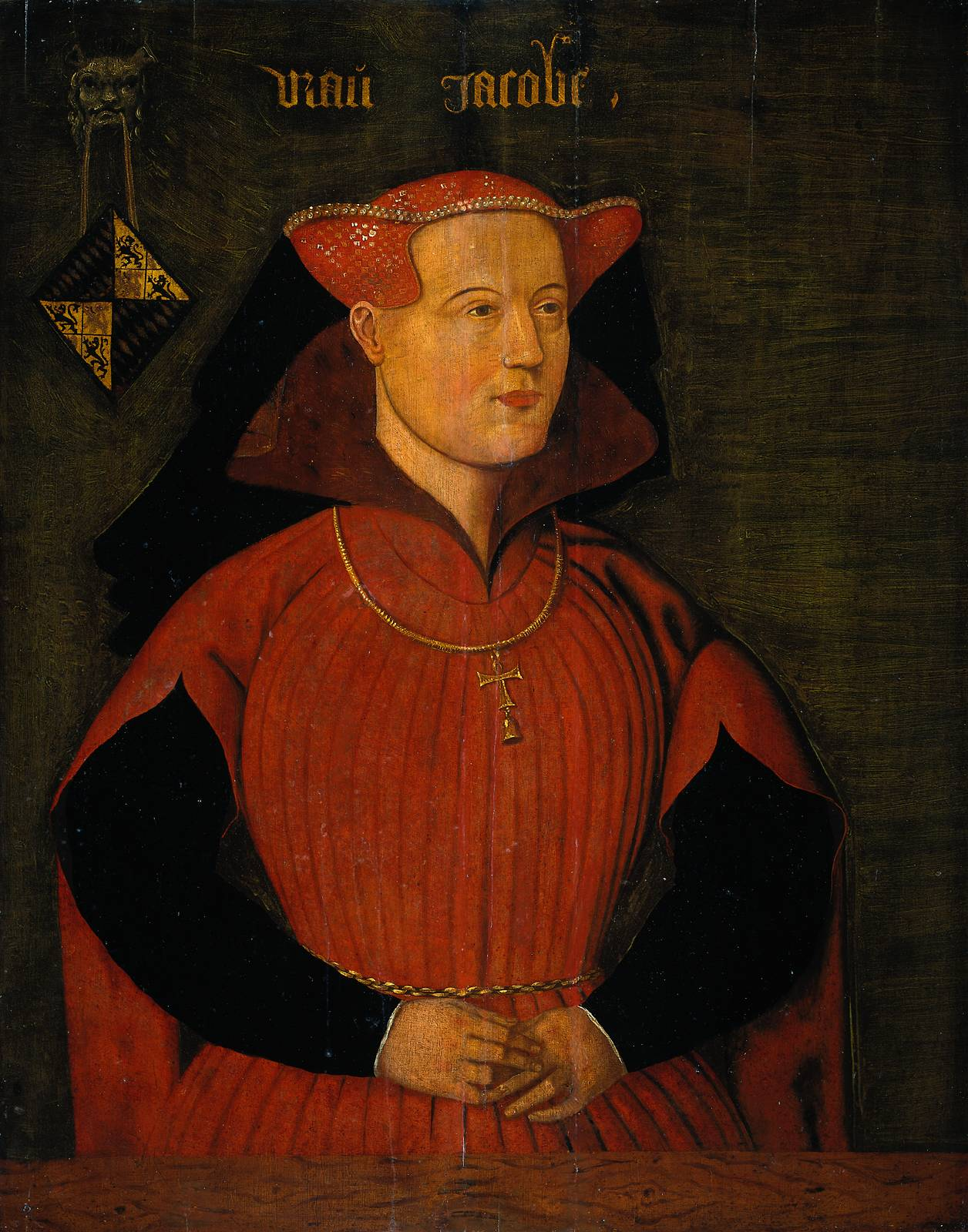 Portrait of Jacqueline, Countess of Hainaut. At half-length, facing right. Carrying a chain with the cross of the Order of Saint Anthony. Her coat of arms top right. 16th-century copy after a lost original dating from around 1435. Pendant of File:Frank II van Borsselen.jpg.